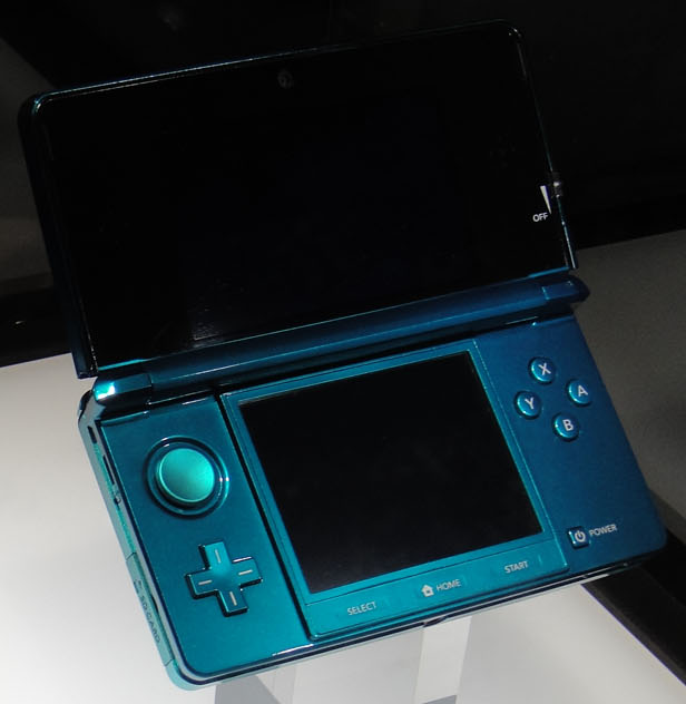 Blue Nintendo 3DS on display in Nintendo booth at the 2010 Electronic Entertainment Expo